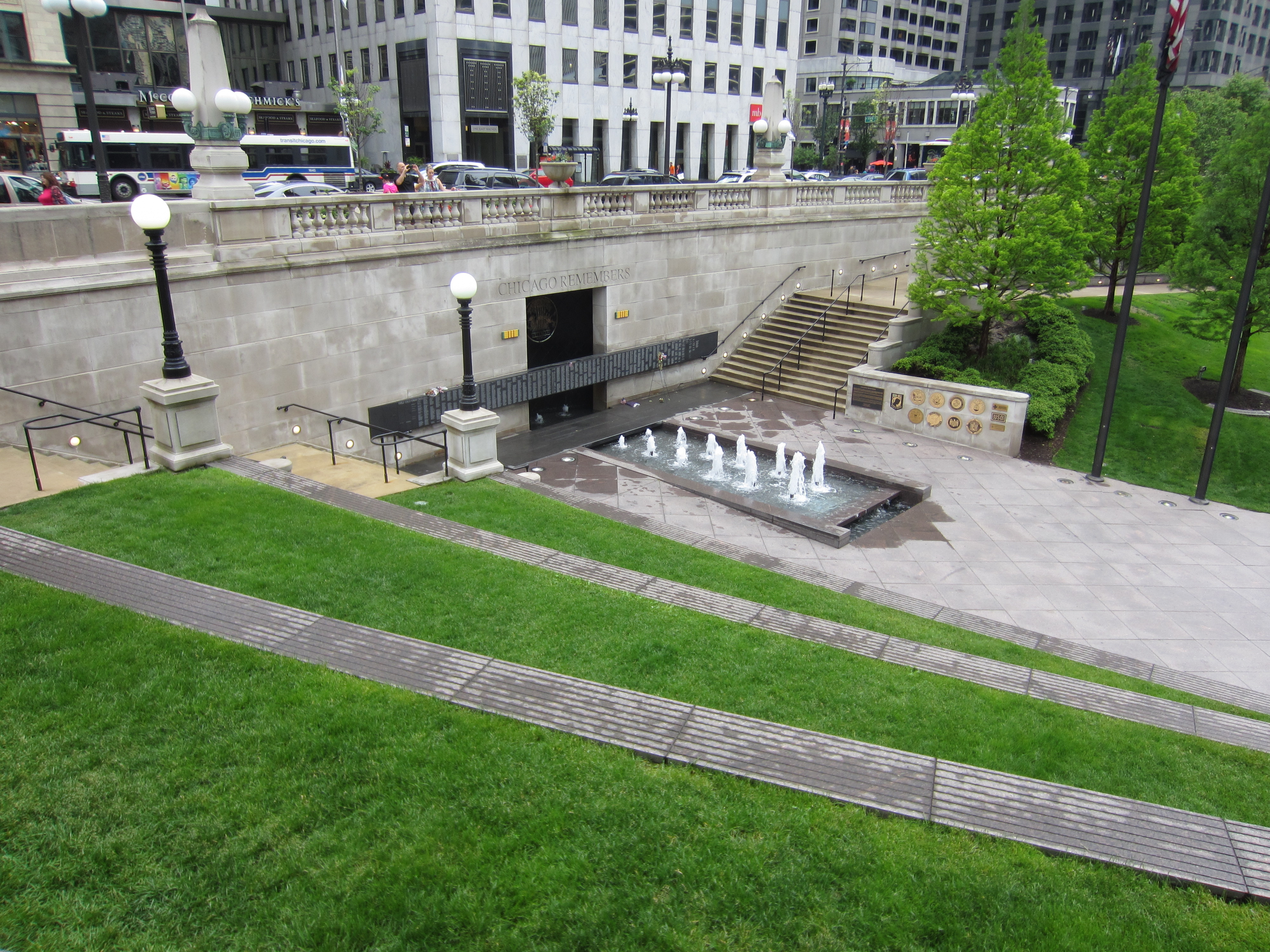 Chicago, Illinois, June 2015